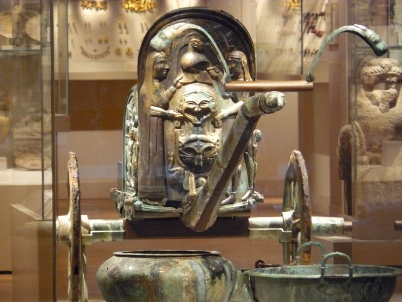 The Monteleone Chariot is an Etruscan chariot dated to ca. 530 BC. It was originally uncovered at Monteleone di Spoleto and is currently part of the collection of the Metropolitan Museum of Art in New York City. Though about 300 ancient chariots are known to still exist, only six are reasonably complete, and the Monteleone chariot is the best-preserved. (This summary was created using Commons SumItUp). front view